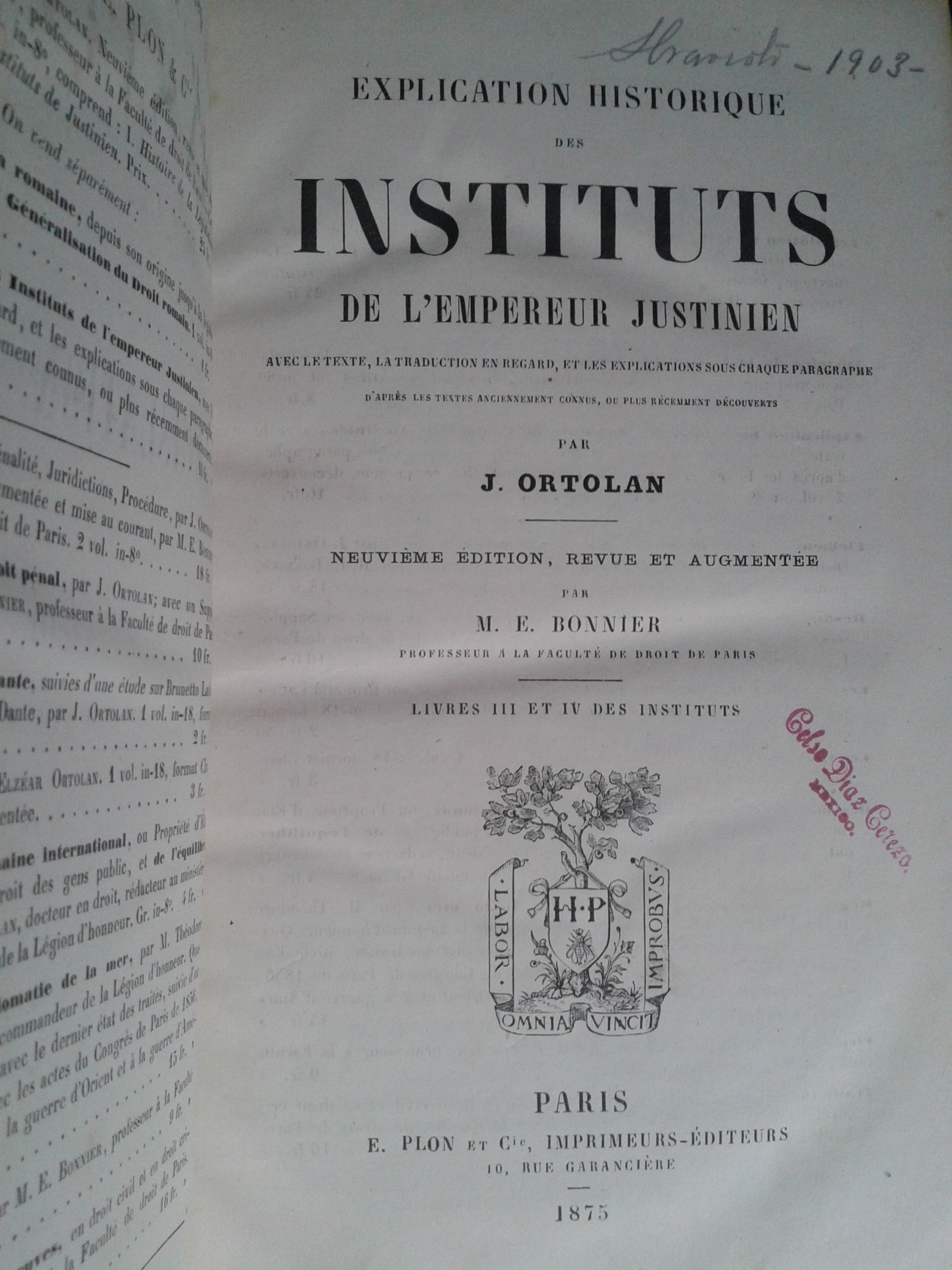 Title page of Explication historique des instituts de l'empereur Justinien, by Joseph Louis Elzéar Ortolan (1802-1873). Ninth edition, reviewed and enlarged by M. E. Bonnier. Books III and IV. Paris: E. Plon et Cie., 1875.